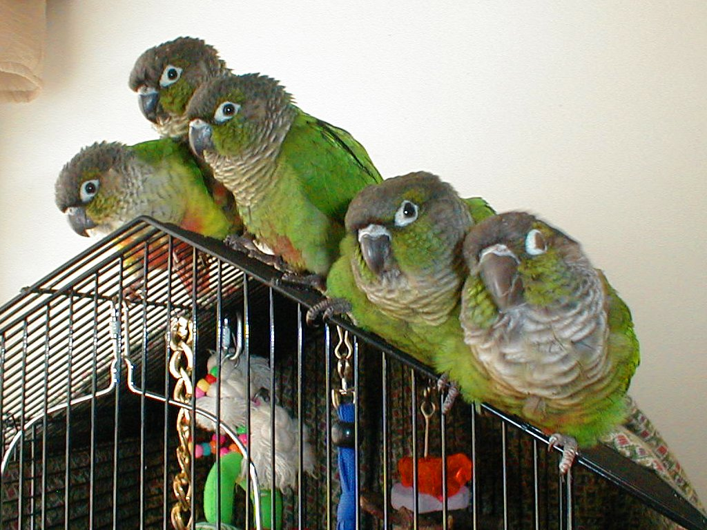 A green-cheeked conure family. Bird #2 from the left is the father, bird #5 is the mother, birds #1, #3 and #4 are siblings. The different coloring on bird #1 is a natural mutation. Photo taken April 12, 2006; released to public domain by author